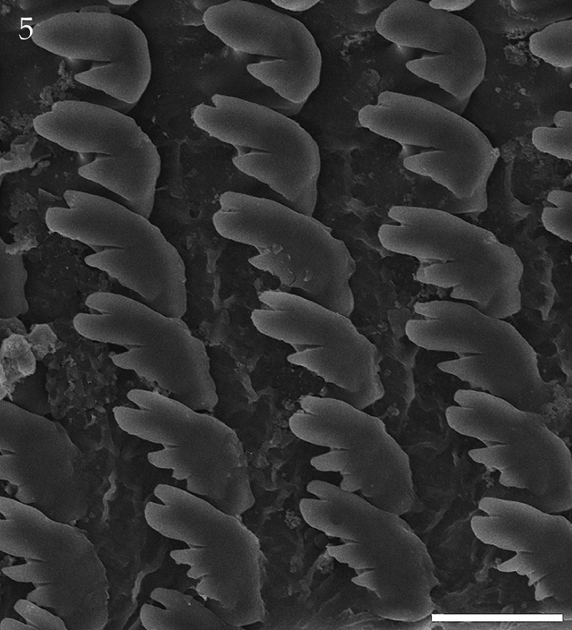 Photo of the radula Leptacme cuongi. lateral tooth 7 and marginal teeth 1-5. Locality: Vietnam, Thanh Hoa Province, Pu Luong National Park, limestone hill near the native village Am, 20°27.39'N 105°13.65'E; 21.ix.2003. Scale bar 10 µm.